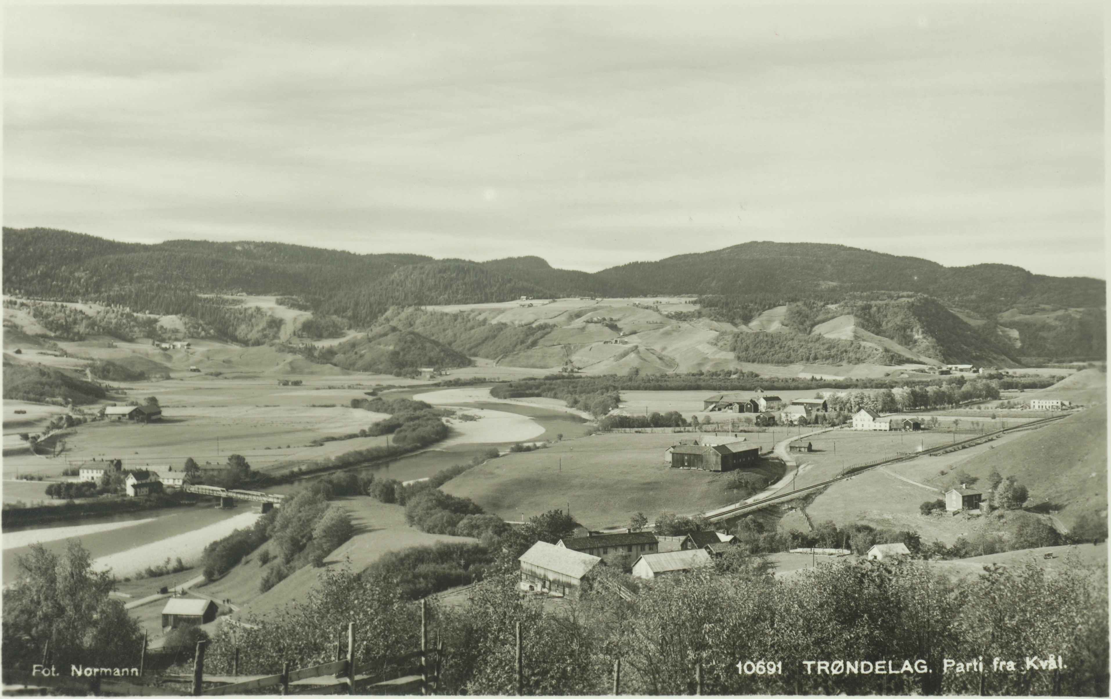 Kvål in Melhus, Norway, with Gaula river